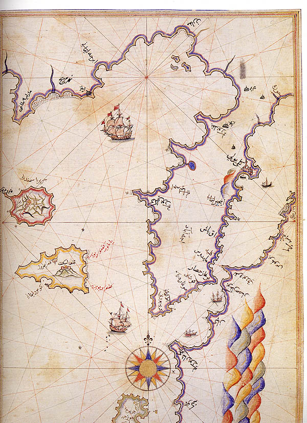 Dardanelles Strait and the Gulf of Saros on the Kitab-ı Bahriye (Book of Navigation) of Piri Reis